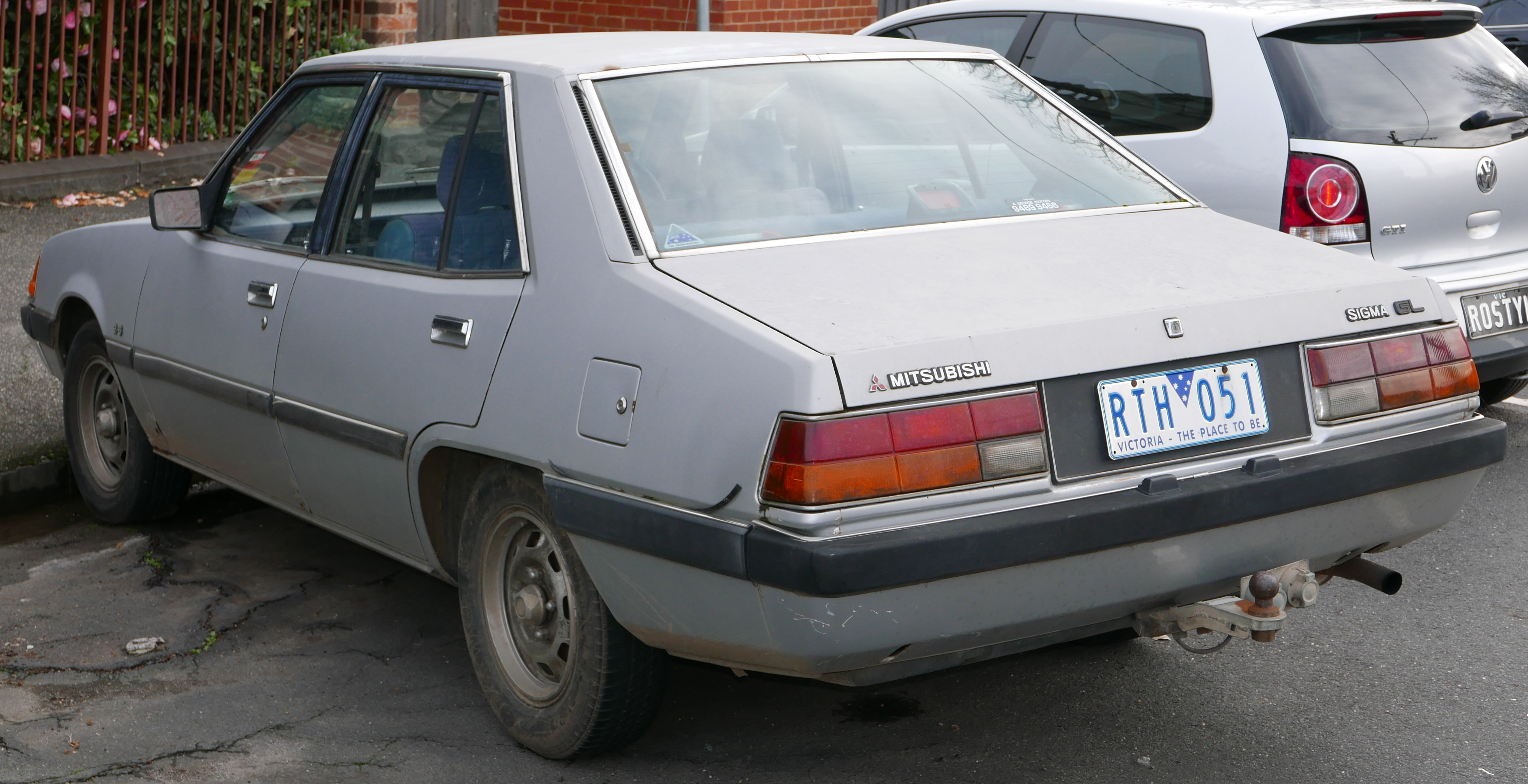 1982 Mitsubishi Sigma (GJ) GL sedan. Photographed in Fitzroy North, Victoria, Australia. Vehicle registration enquiry results Jurisdiction Victoria Registration RTH051 Chassis code Not available Engine code M531S42792 Compliance date Not available Year of manufacture 1982